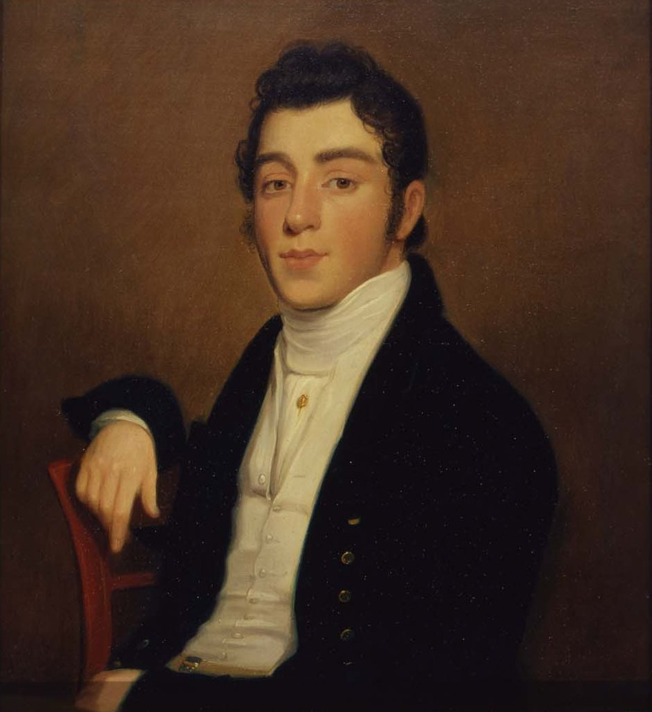 1818 portrait of Mendes Cohen by artist Joseph Wood. Smithsonian American Art Museum, 1978.67.1, museum purchase.